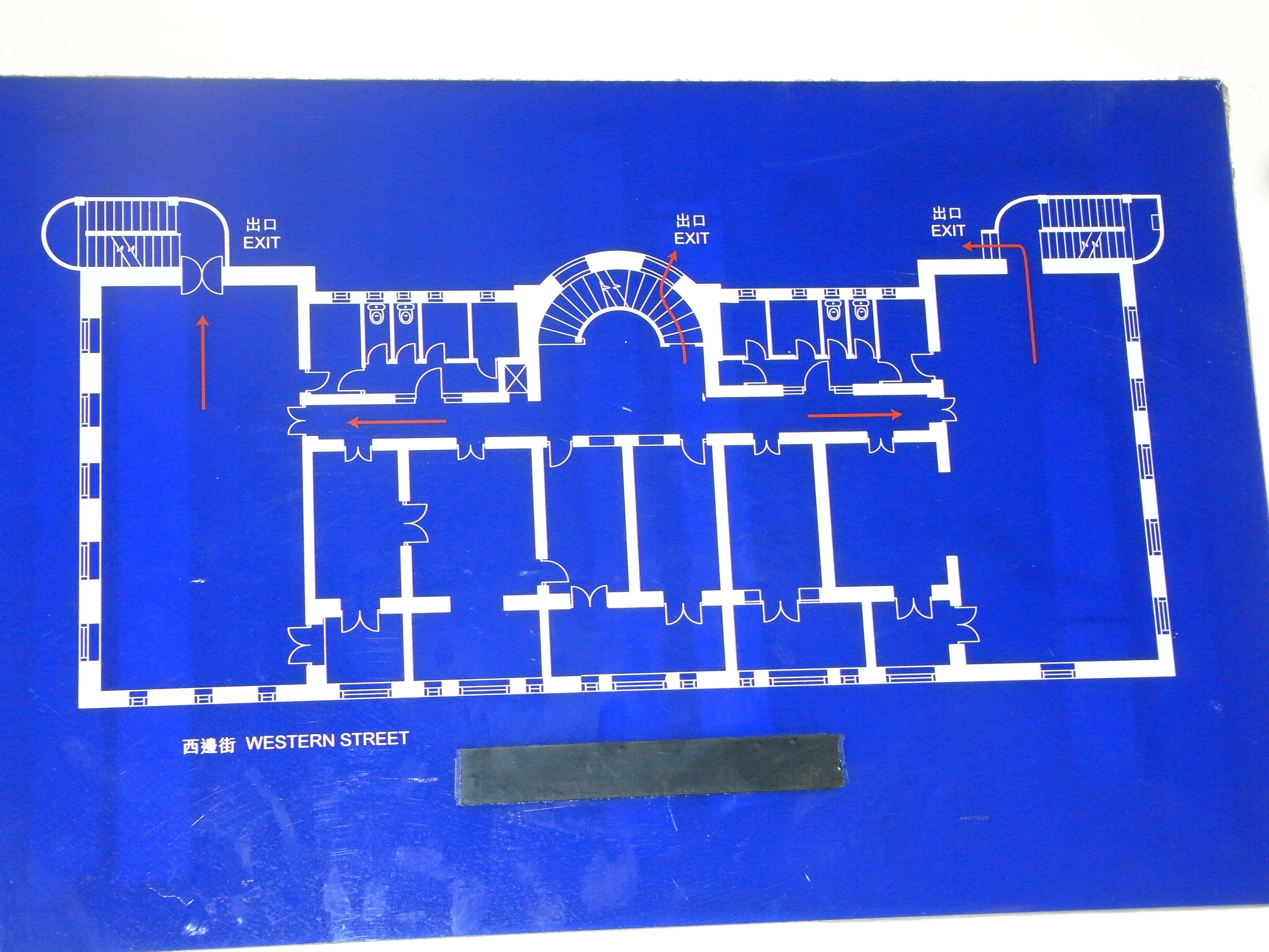 西邊街 西區社區中心